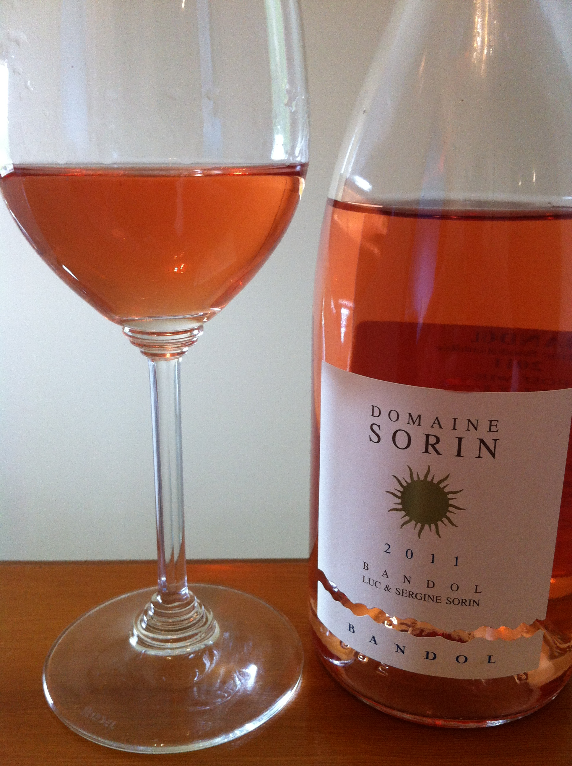 A French rose from the Provence wine region of Bandol